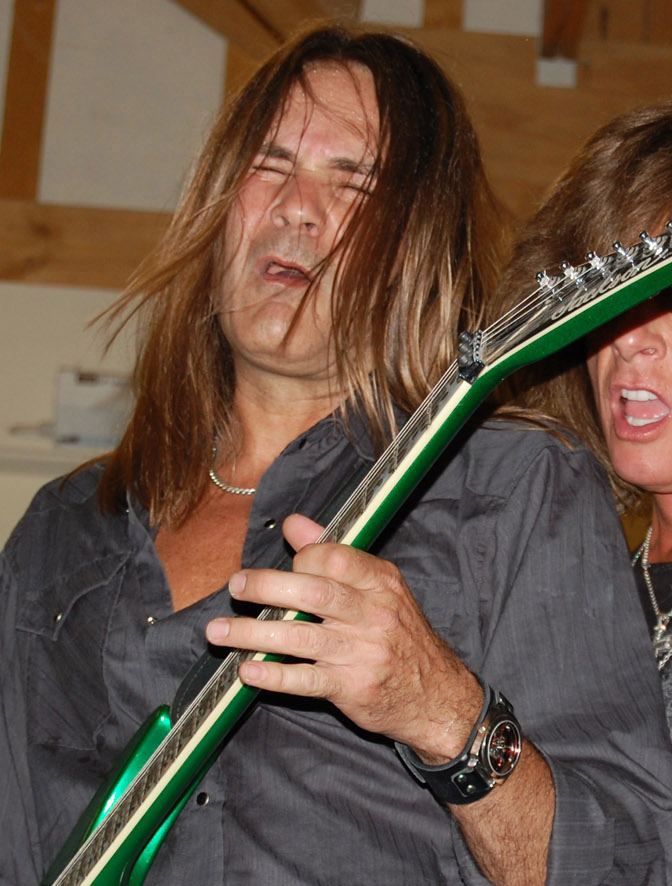 From left, Carlos Cavazo, guitarist for the classic rock 'n' roll band Big Noize rocked the house for service members and civilians during a concert on Camp Taji, Sept. 11, 2008. The legendary band comprised of members from Ozzy Osbourne, Quiet Riot, Deep Purple and AC/DC played their rendition of classic rock 'n' roll songs from the 70's and 80's for a packed house on the camp north of Baghdad, Sept. 11, 2008.